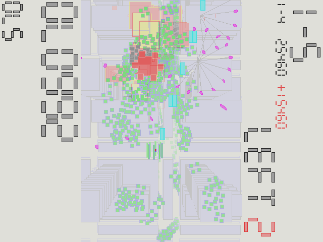 Screenshot of the freeware video game Noiz2sa